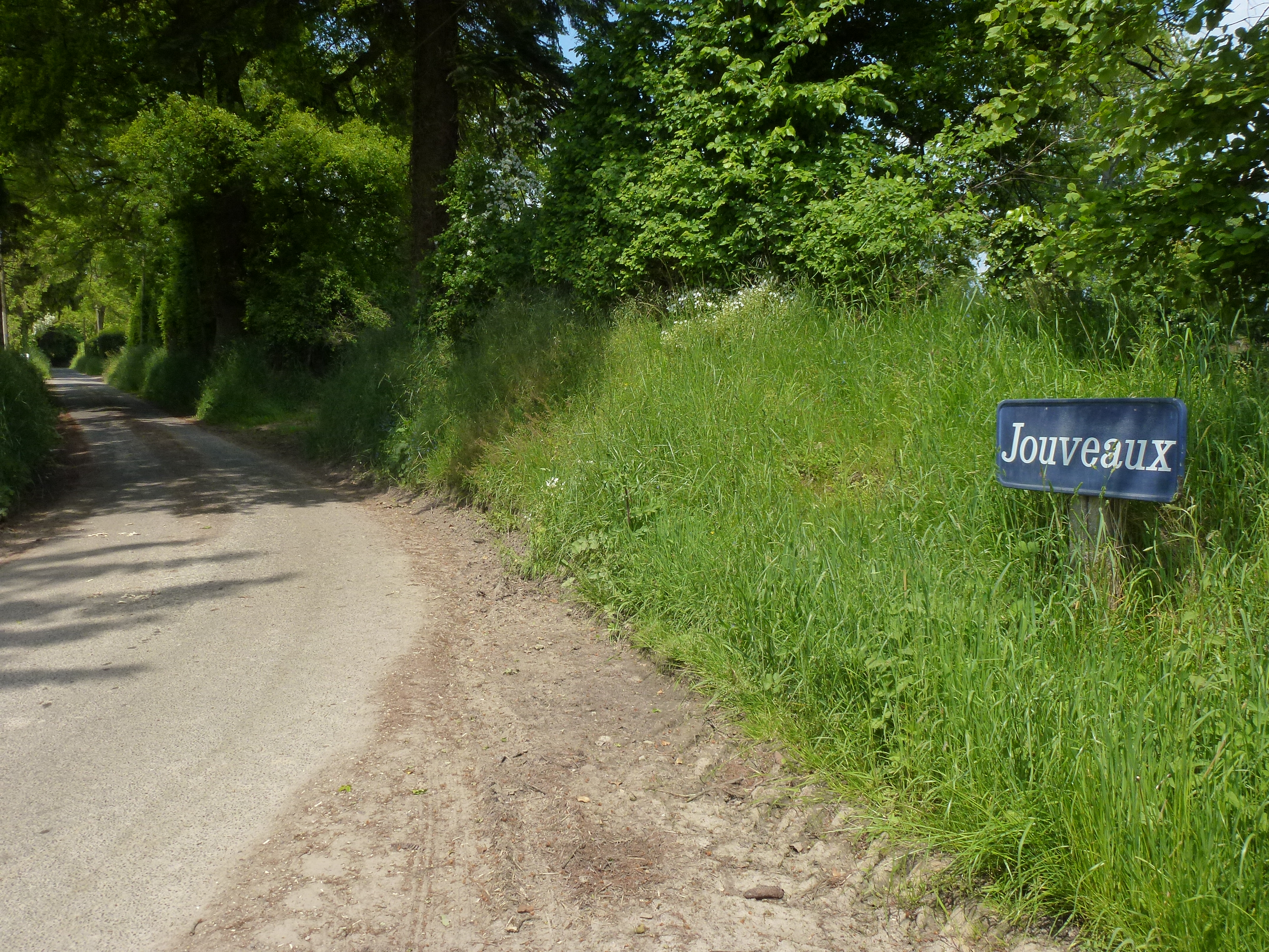 Morainville-Jouveaux (Eure, Fr) city limit sign, Jouveaux